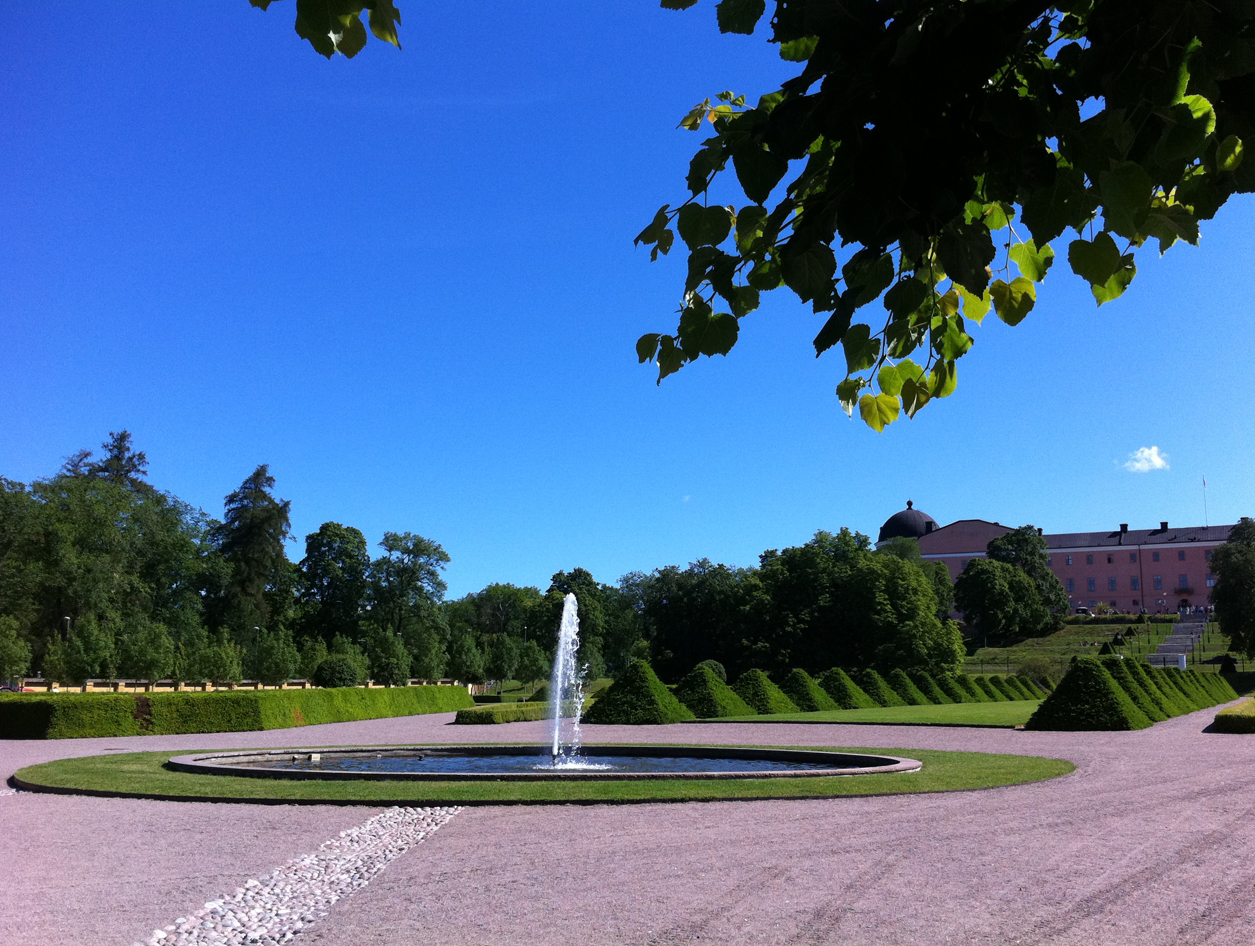 The formal gardens of Uppsala University Botanical Garden (Botaniska trädgården) with Uppsala Castle (Slott) in background.